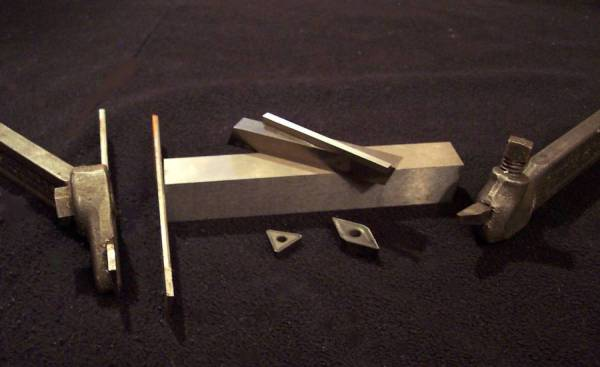 Various tool bits and holders. From left to right: a parting tool in a holder, a parting tool not in its holder, 3 blank (not ground to shape yet) HSS toolbits (behind), 2 carbide inserts, and an HSS toolbit that appears to have been ground for RH turning in a holder.